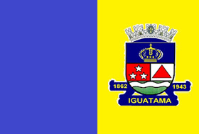 Flags of the city of Iguatama, Minas Gerais, Brazil.